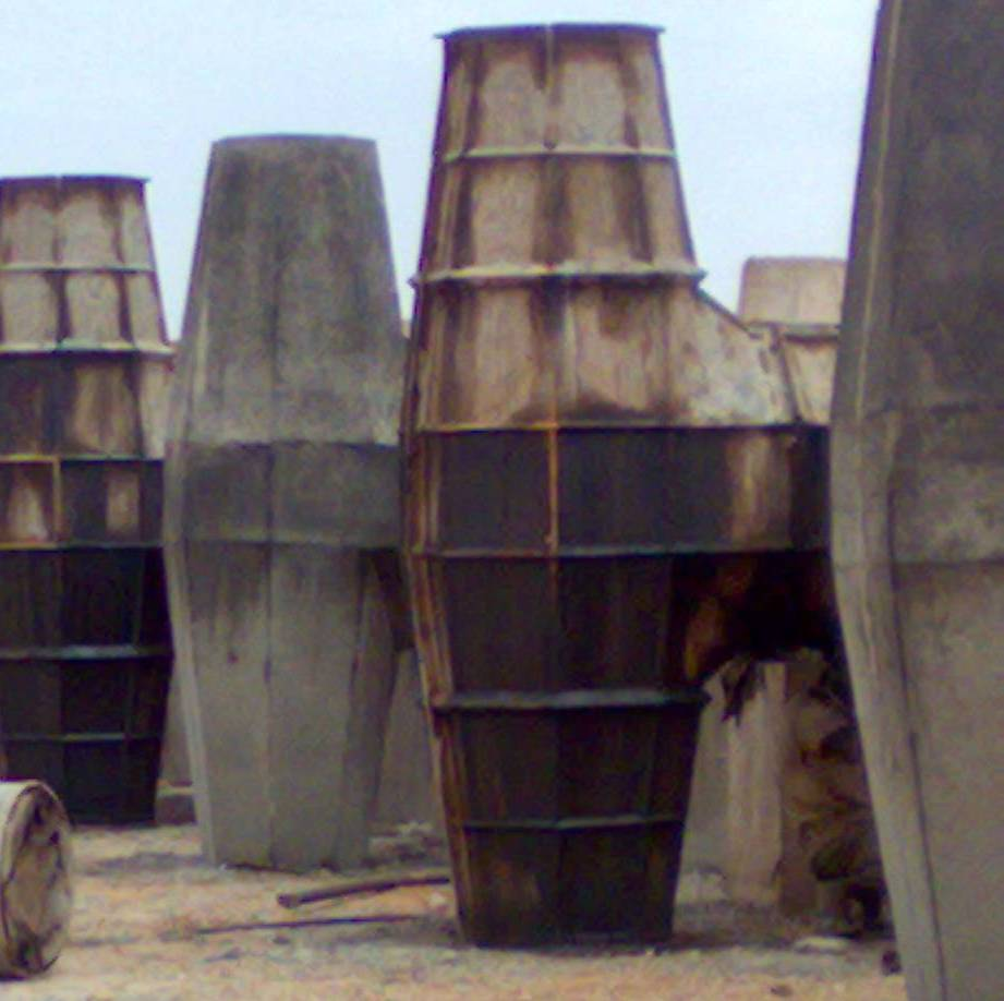 KOLOS formwork in the casting yard